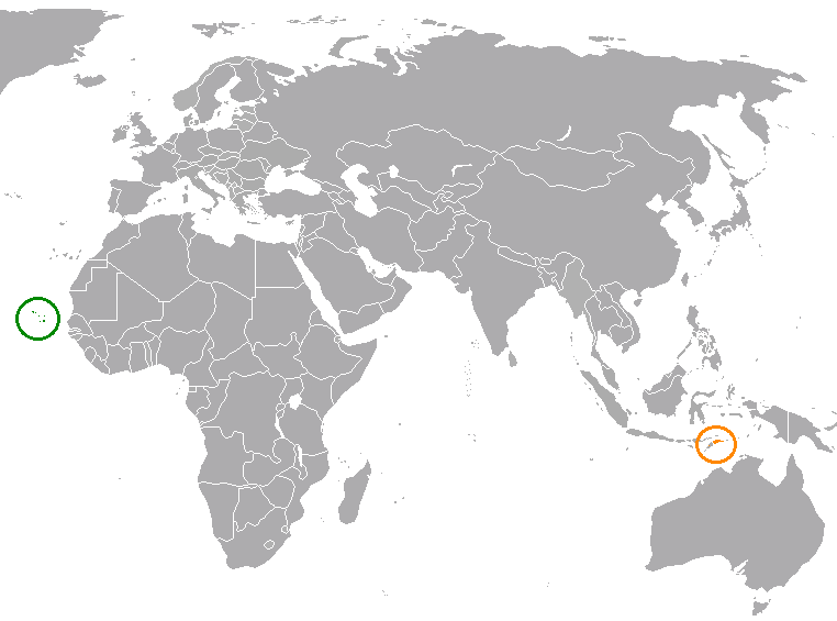 Map showing locations of both Cape Verde and East Timor